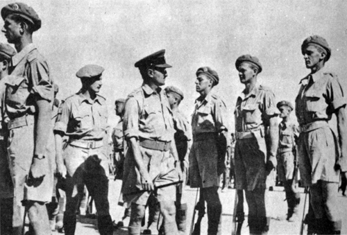 Jewish Brigade. Brigadier General Ernest Frank Benjamin, commanding officer of the Jewish Brigade, inspects the Second Battalion. Palestine, October 1944